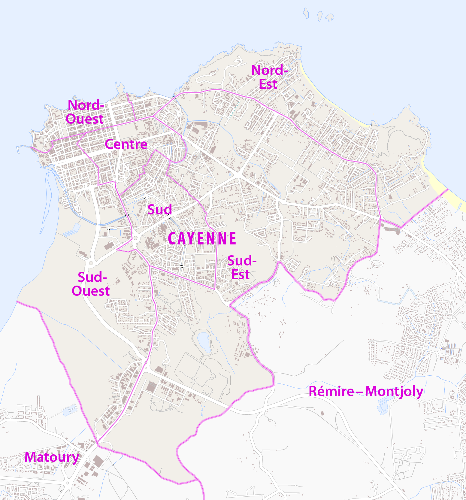 Map of adminstartive units of Cayenne